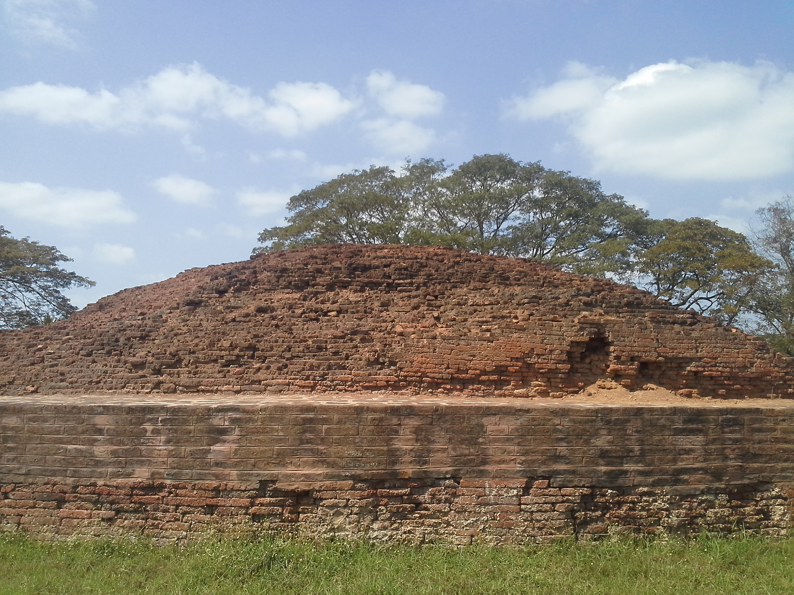 View of Maha stupa at Bhattiprolu Buddhist site in Guntur district